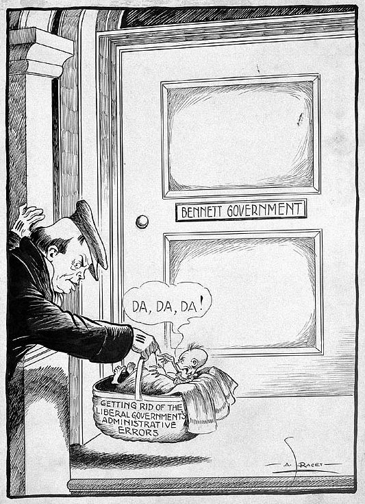 Blaming it on Bennett: An original editorial cartoon depicting Mackenzie King putting a baby in a basket labelled "getting rid of the Liberal government's administrative errors" on the front doorstep of the Bennett government Inscription: ANOTHER CASE OF ATTEMPTED DESERTION AND ABANDONMENT OF FILIAL RESPONSIBILITY Publisher: Montreal Star (Montreal, Quebec, Canada)